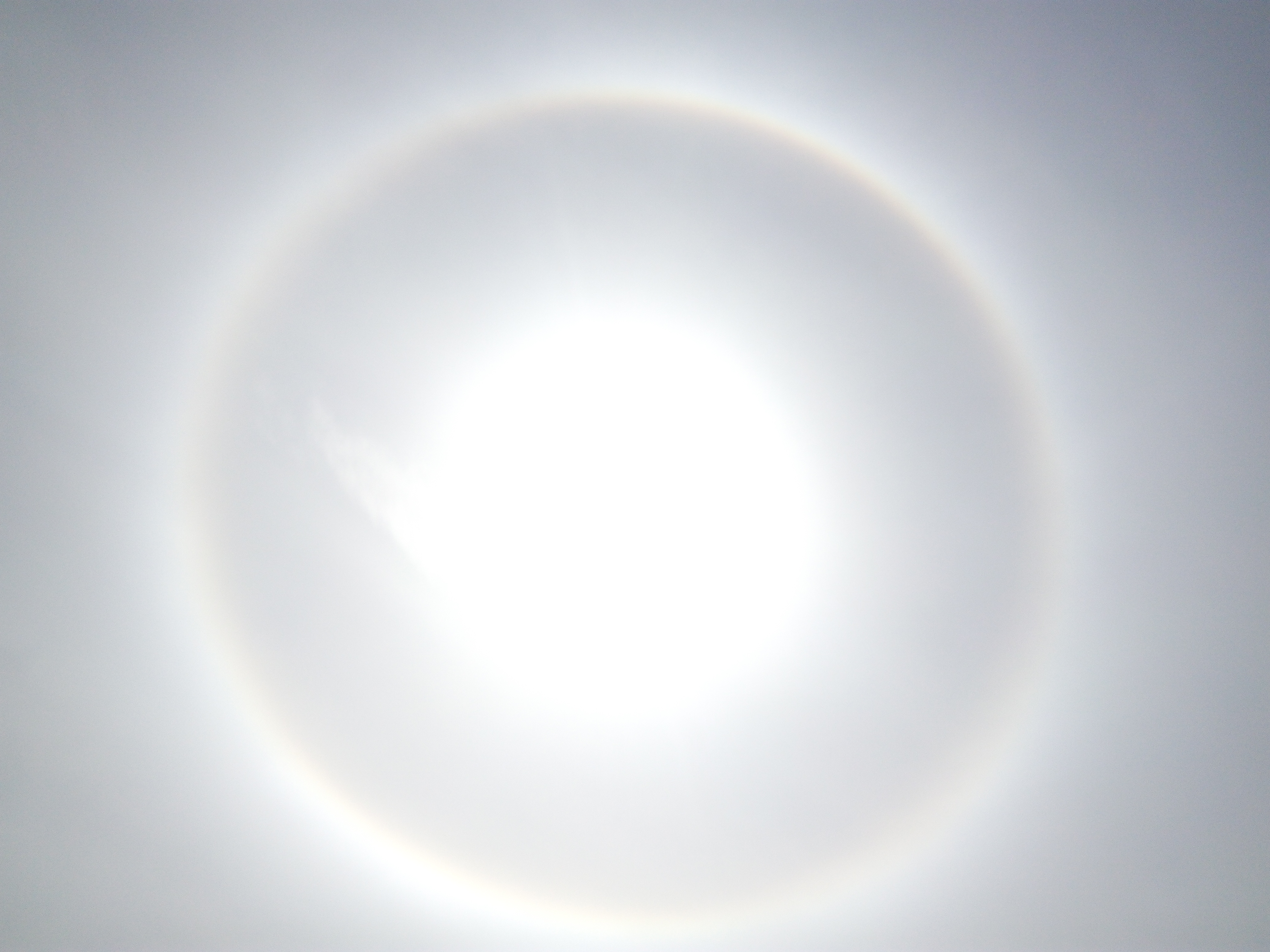 A picture of a Halo(optical Phenomenon) that occurred in Abuja Nigeria about 11AM.